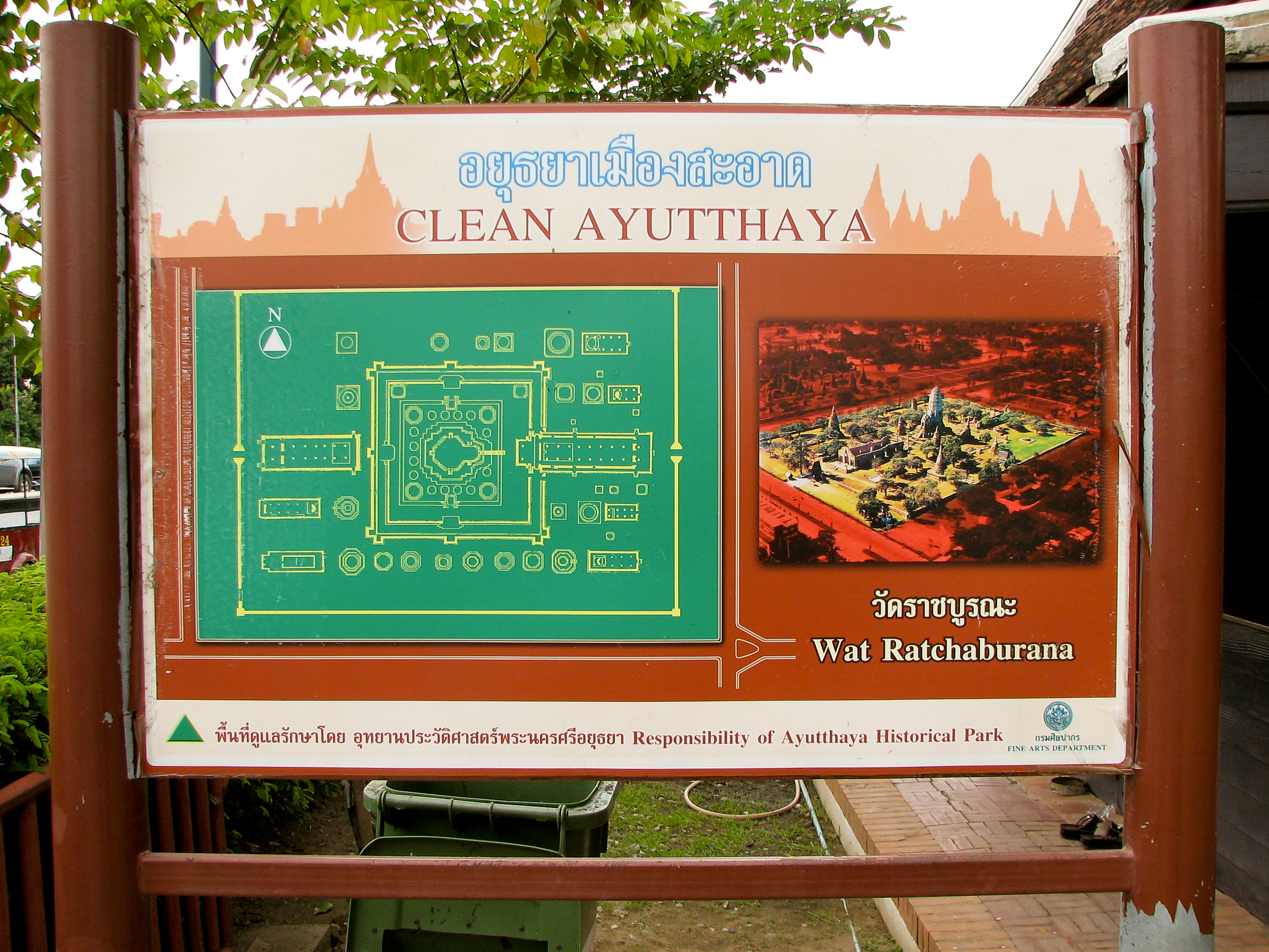 Wat Ratchaburana, Ayutthaya, Thailand